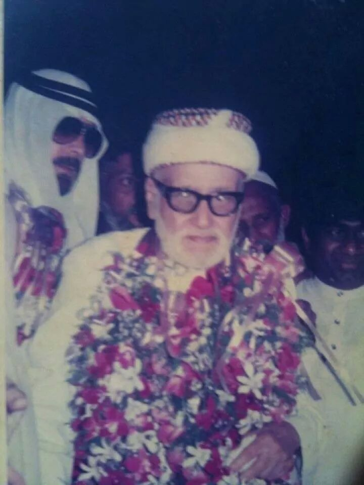 During his last visit to Sri Lanka in 1991 ash sheikh Dr Muhammad al-Fassi